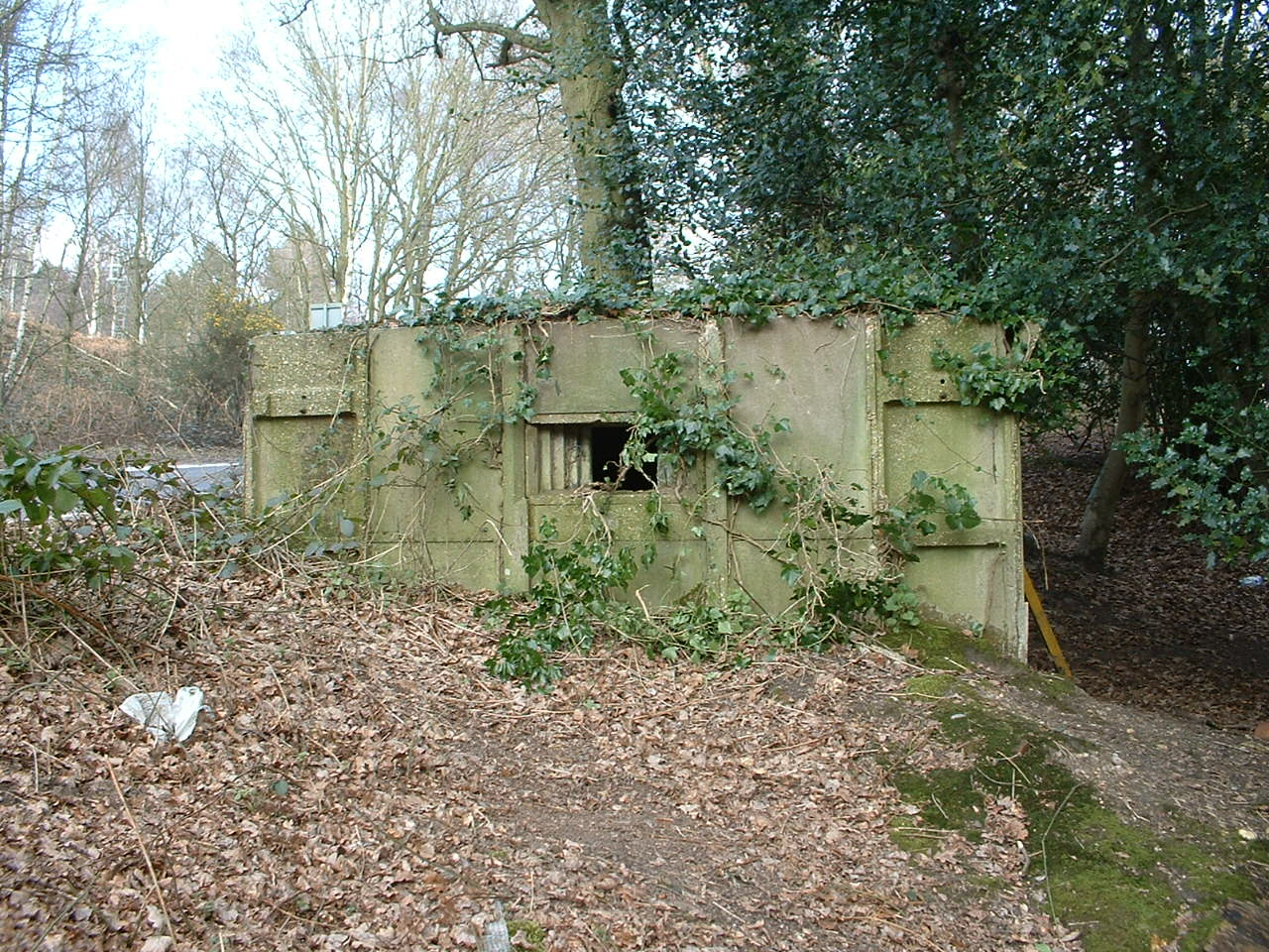 Section drawing of pillbox of this type Pillbox at Curzon Bridges (South). OS reference SU921561 Photographed on 19-Mar-06.